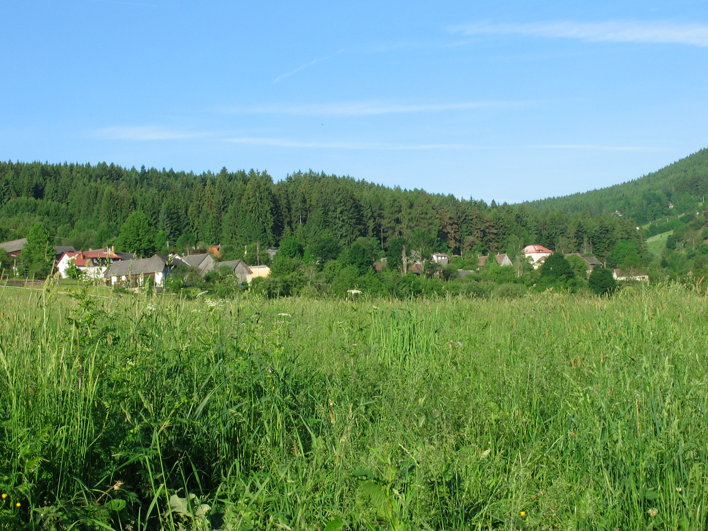 Major part of Šimanov seen from the northeast, Klatovy District, Czech Republic